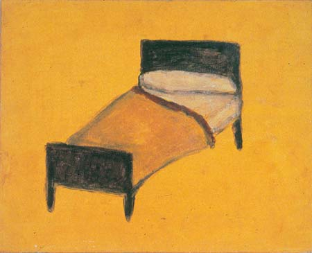 Nadie olvida nada, 1982. Painting, Acrylic on canvas, 7 3/4 x 11 3/4 inches,Artist`s collection